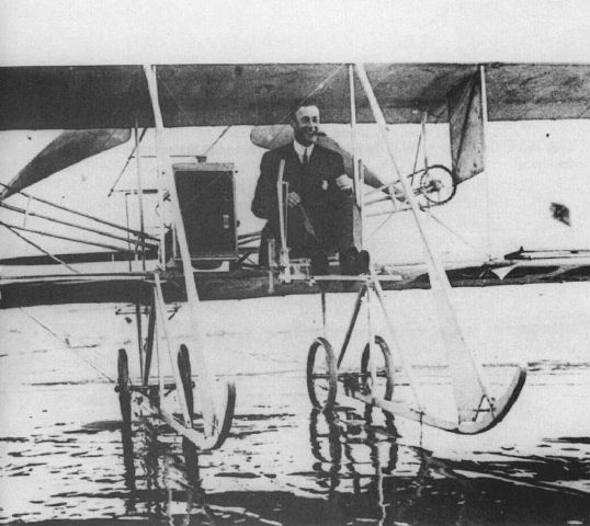 Cal Rodgers' "Vin Fiz" Flyer (a Wright Model EX biplane) arrives at Long Beach, California, on December 10, 1911, and wets the wheels in the Pacific Ocean. It is the end of the first transcontinental flight across the U.S.